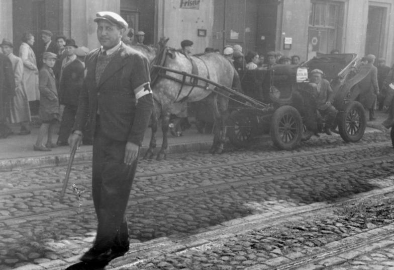 Litzmannstadt Ghetto. Policeman of jewish order police at Hanseatenstraße street (Łagiewnicka street) in previously named Litzmannstadt (Lodz city).